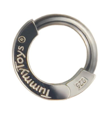 This belly button ring clasp locks securely with an audible snap, an alternative to the standard barbell